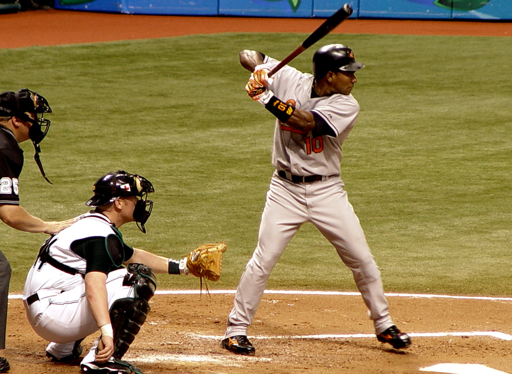 Miguel Tejada at bat, October 1, 2005. Uploaded at en.wikipedia: by Googie man.